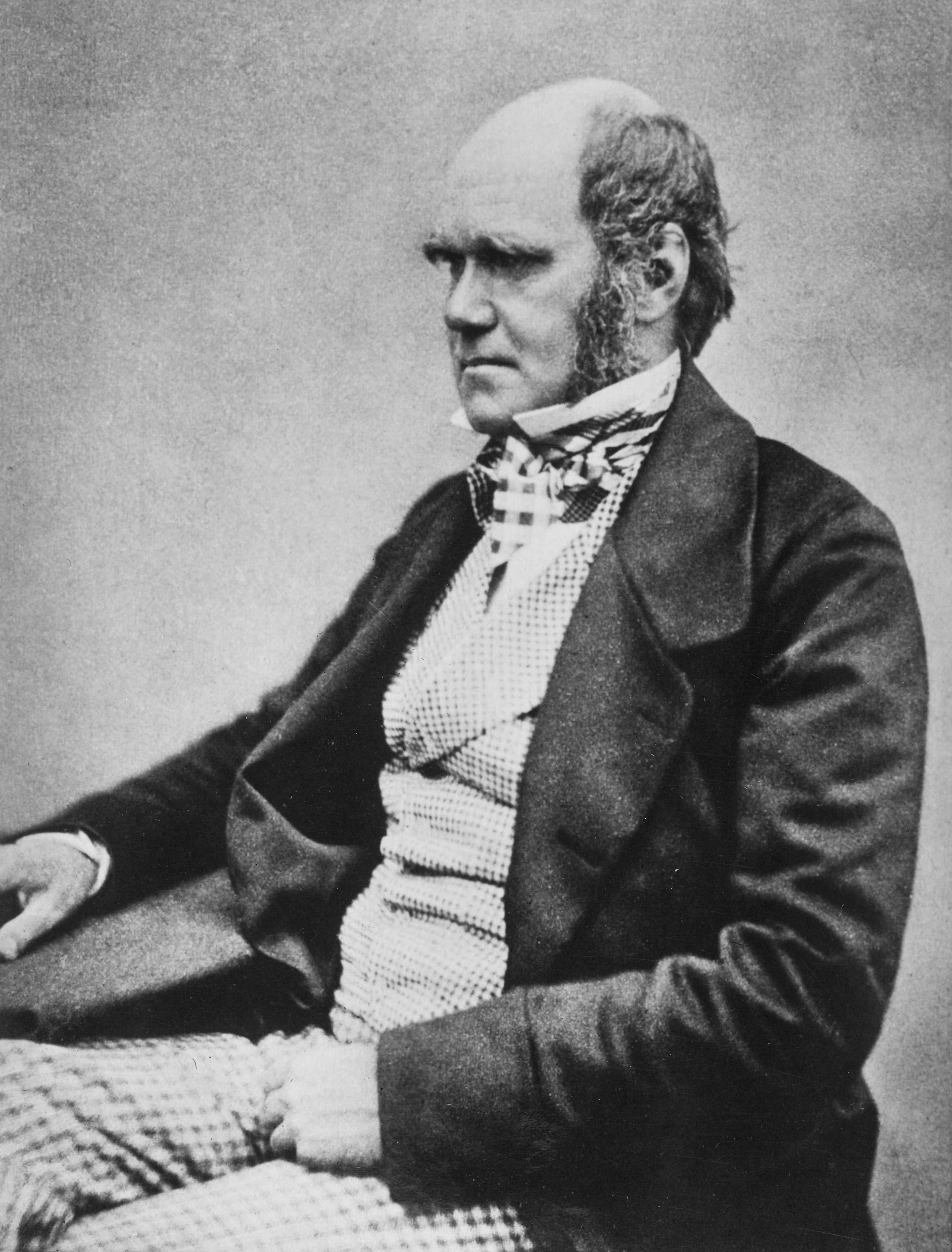 Photograph of Charles Darwin; the frontispiece of Francis Darwin's The Life and Letters of Charles Darwin (1887) has the caption "From a Photograph (1854?) by Messrs. Maull. And Fox. Engraved for Harper's Magazine, October 1884."[1] In an 1899 paper, Francis Darwin wrote that "The date of the photograph is probably 1854; it is, however, impossible to be certain on this point, the books of Messrs. Maull and Fox having been destroyed by fire. The reproduction is by Mr. Dew-Smith, who has been at some disadvantage, having only an old and faded print to work from."[2]